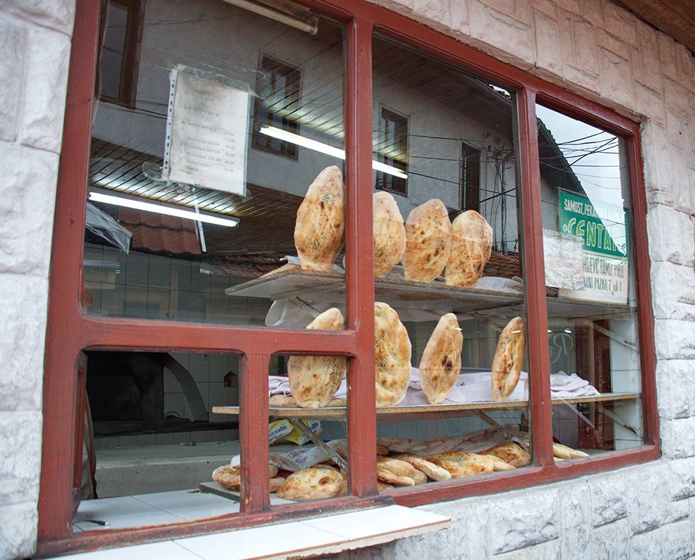 Panoramic scenes of the Pester plateau, karst region in southwestern Serbia. It situated in the area of Raska. The most part of Pešter is located in the municipality of Sjenica. The relief of Pester Plateau is characterized by low, hilly terrain, streams of clean water and vast meadows that are used for grazing sheep and cattle. Pester field is a region of outstanding natural value. A part of Pester is the Uvac River Canyon. In the canyon of the river Uvac nests large colony of eagles, vultures - Gyps fulvus.